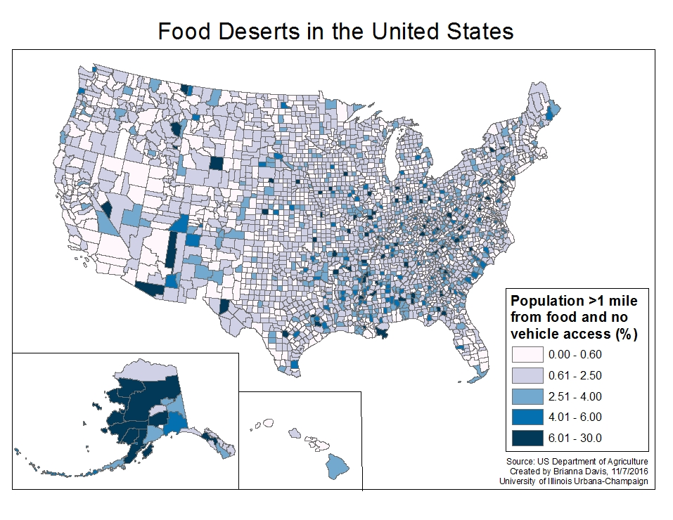 This map depicts food deserts in the United States by counties as reported by the USDA in 2010.